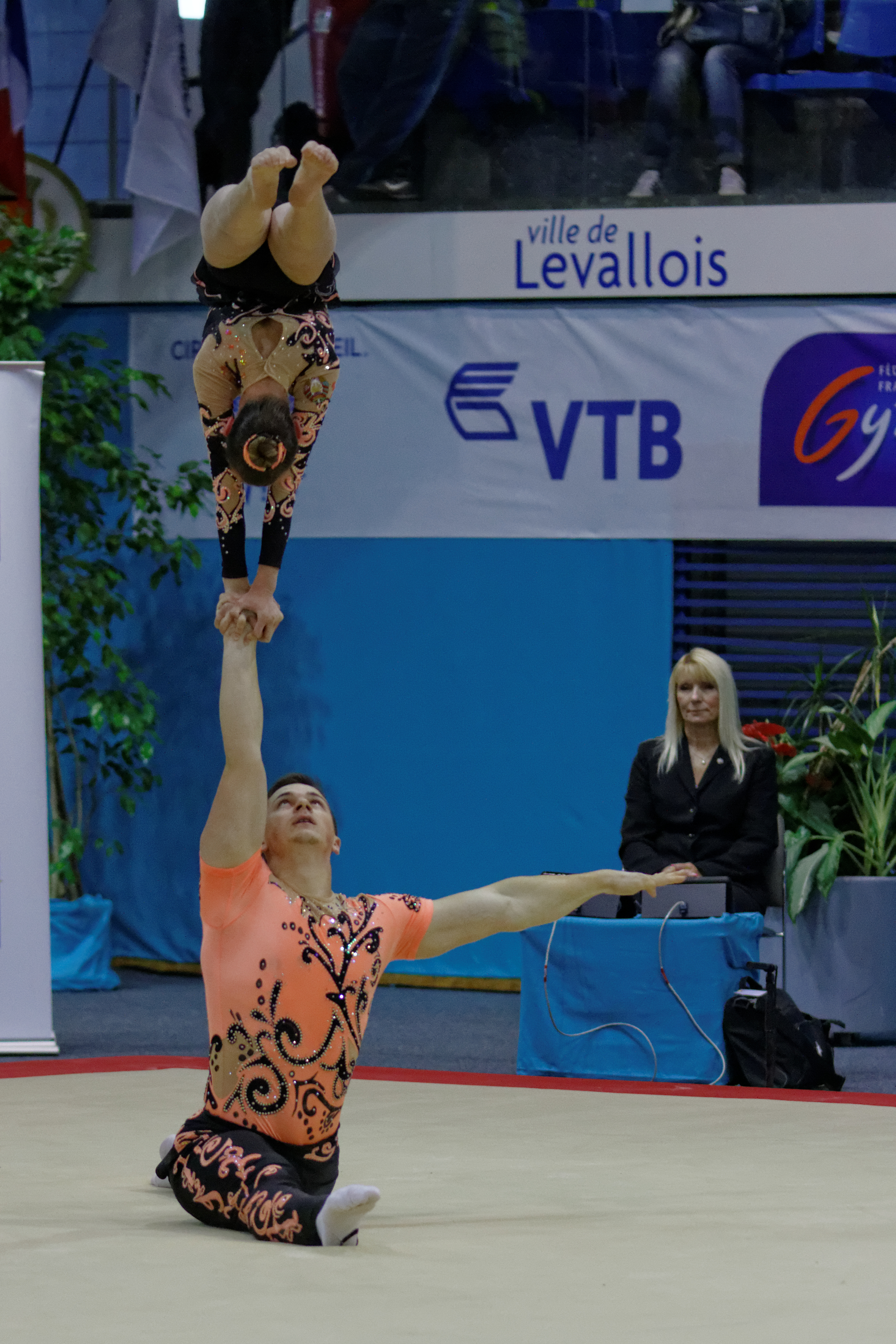 2014 Acrobatic Gymnastics World Championships, 10th-12 July, Levallois-Perret, France. Qualifications: mixed pair. Belarus 1.